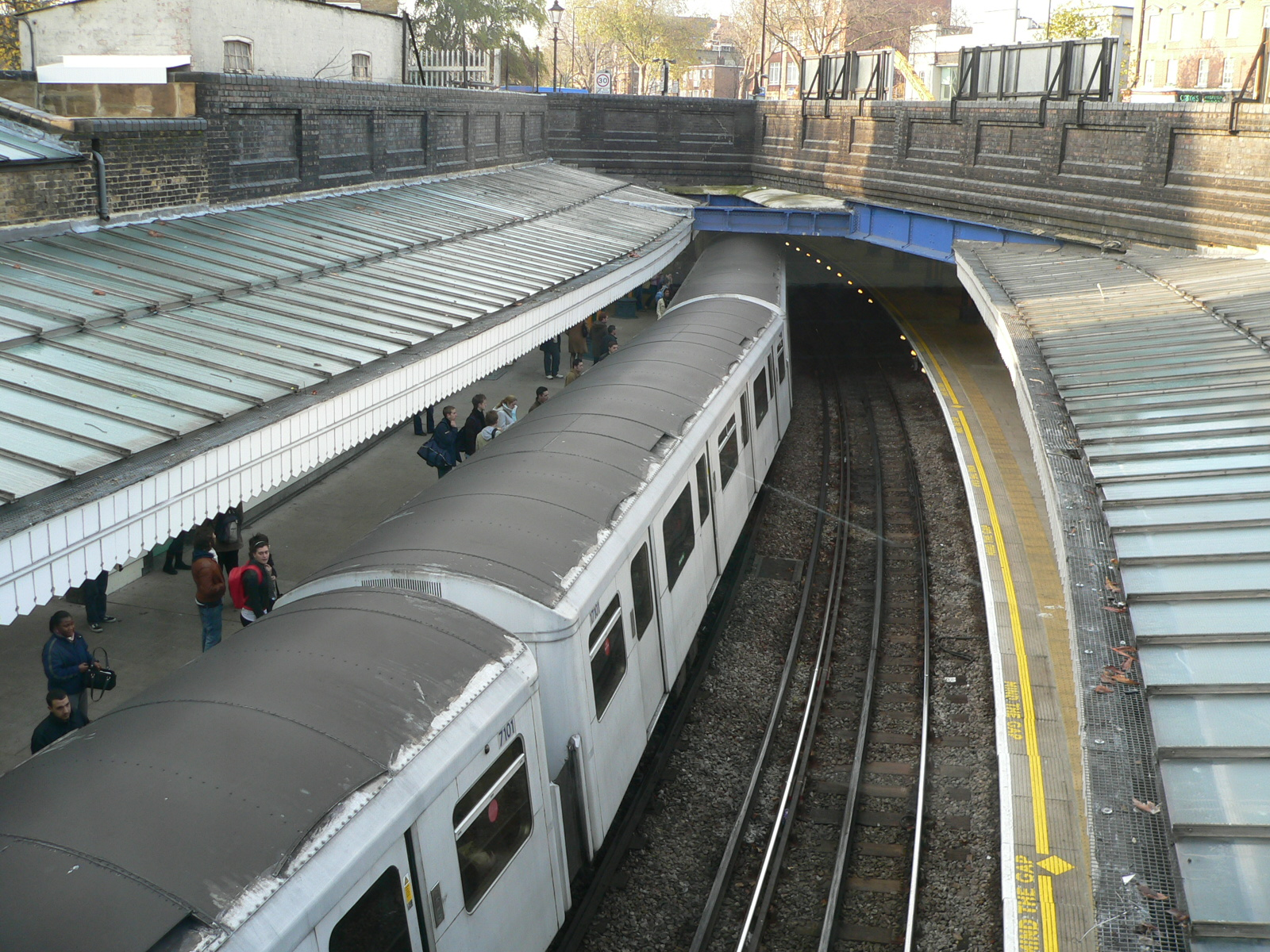 A westbound District Line train at Bow Road tube station in east London, viewed from the footbridge. This photograph clearly illustrates the typical depth of the sub-surface lines on London Underground.